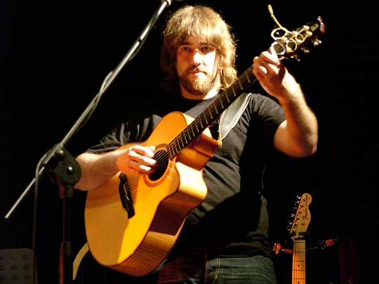 Barcelonese guitarist Pau Romero performing live with VerdCel in Valencia